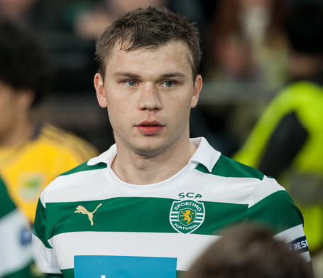 Marat Izmailov